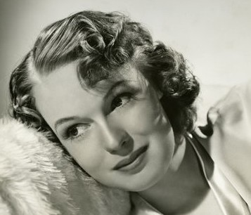 MGM publicity still of actress Rita Johnson.